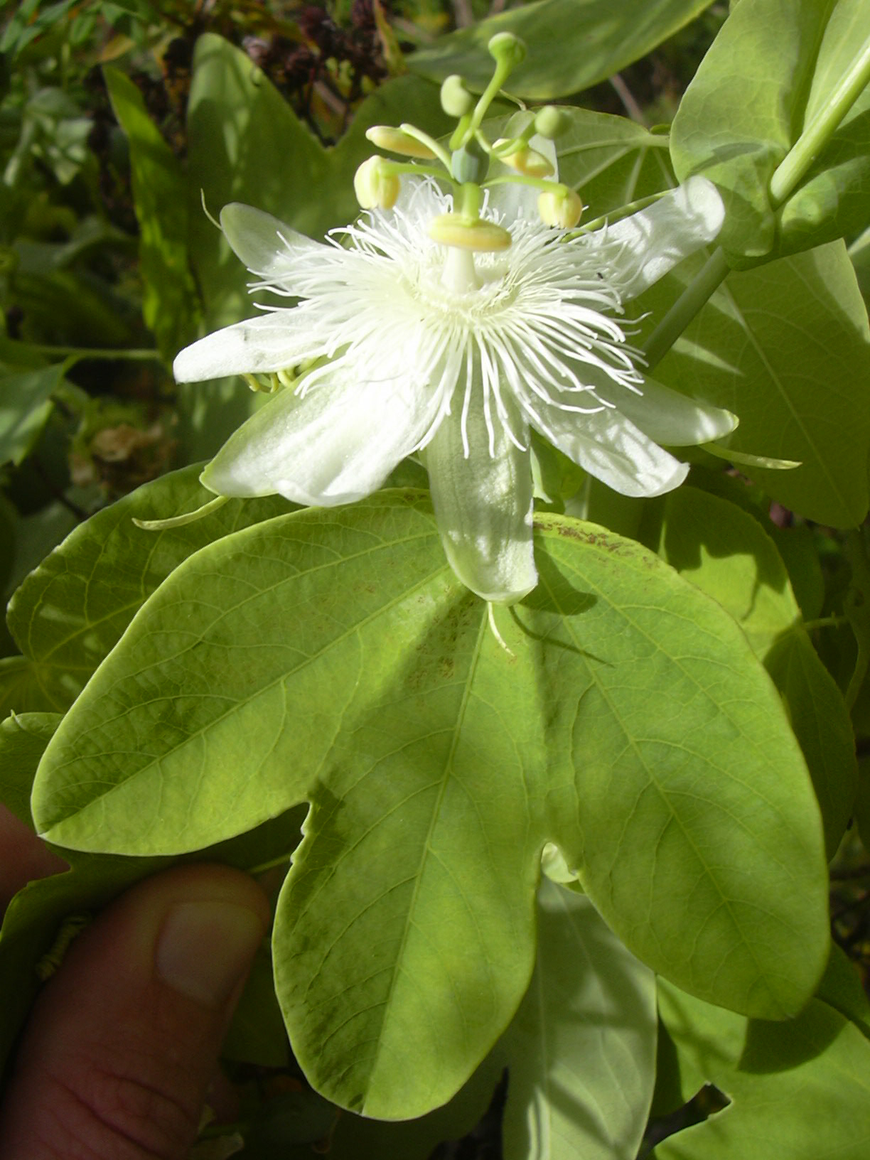 Passiflora subpeltata (flower). Location: Maui, Kula